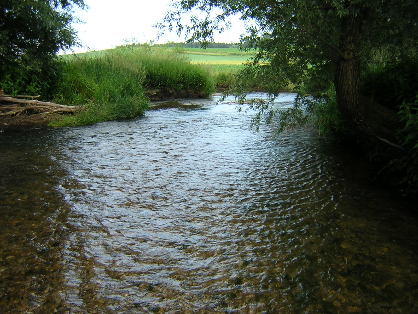 River Paar between the villages Kissing and Friedberg-Ottmaring, Germany 48°19'23.05" N 10°59'27.42" E